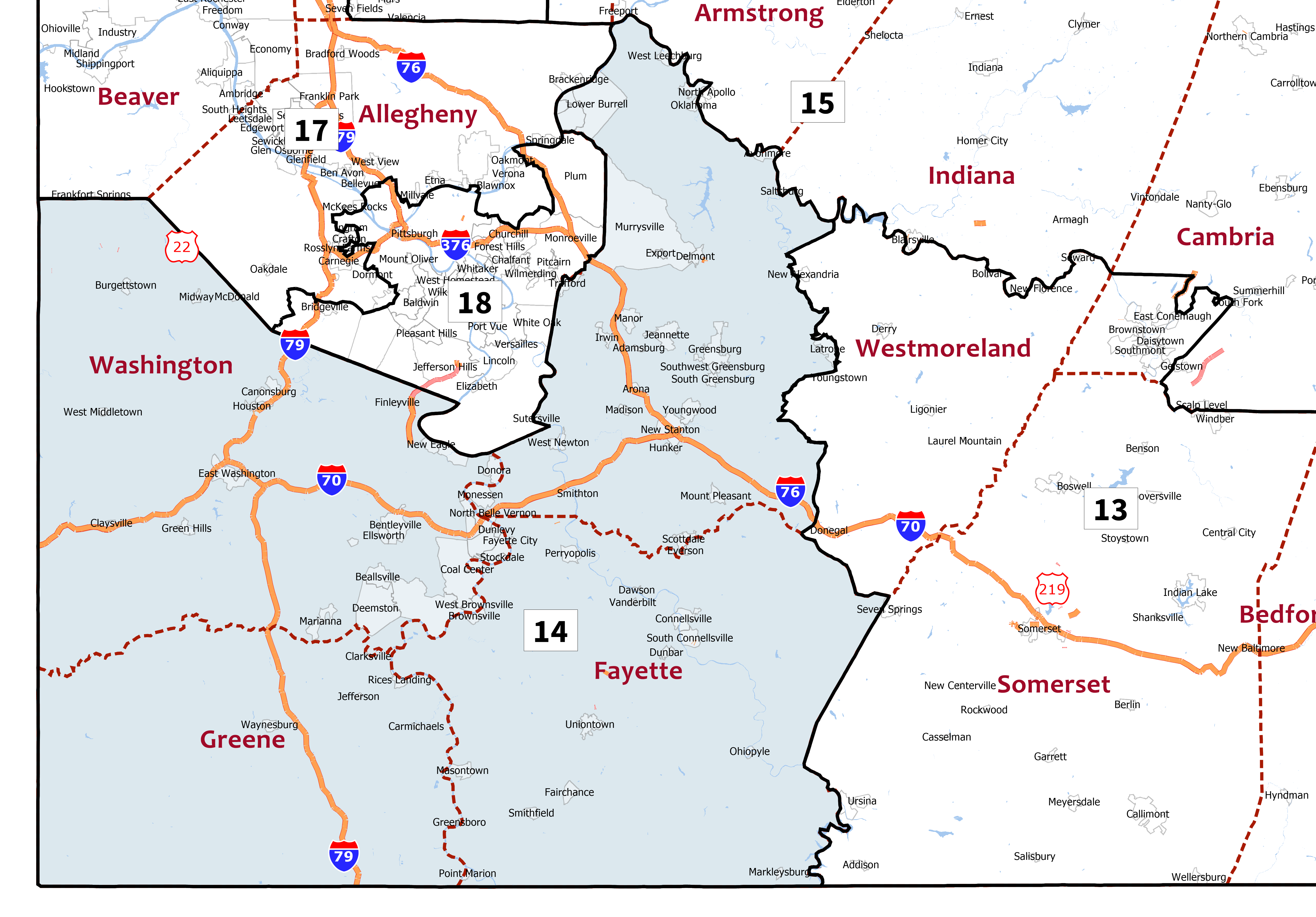 Pennsylvania congressional district 14